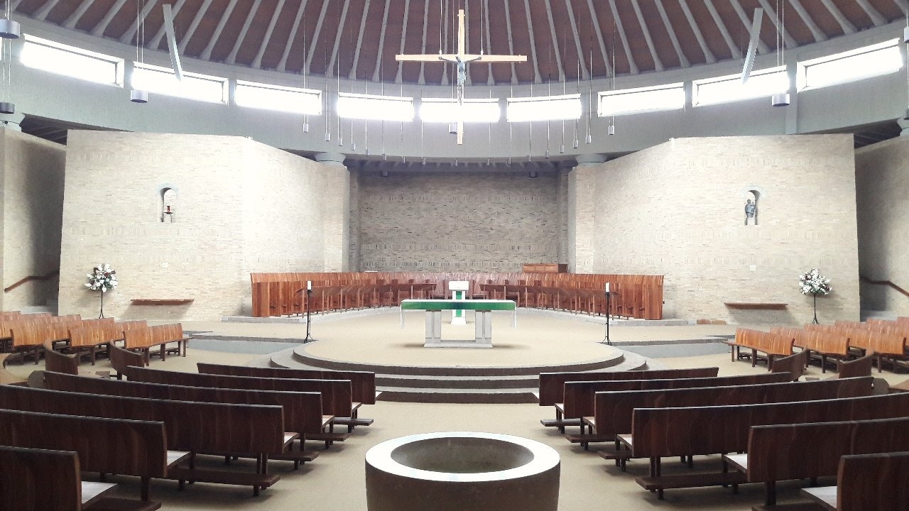 Interior of the Catholic English Benedictine abbey church of Our Lady Help of Christians, Worth Abbey, near Turners Hill, West Sussex.